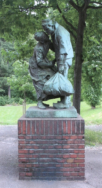 This statue titled "Adieu (of a mariner)" by the sculptor Gregor von Bochmann (1878 - 1914) was first produced in a terra-cotta version and unveiled in 1902 at the Arts and Crafts Exhibition in Düsseldorf. Later a bronze version was created by Bochmann and which received the Large Golden State-Medal in Vienna in 1904. The sculpture can still be admired and stands in Düsseldorf-Oberkassel at the corner of Columbus and Pariser (Düsseldorfer) streets since it's erection in 1932.